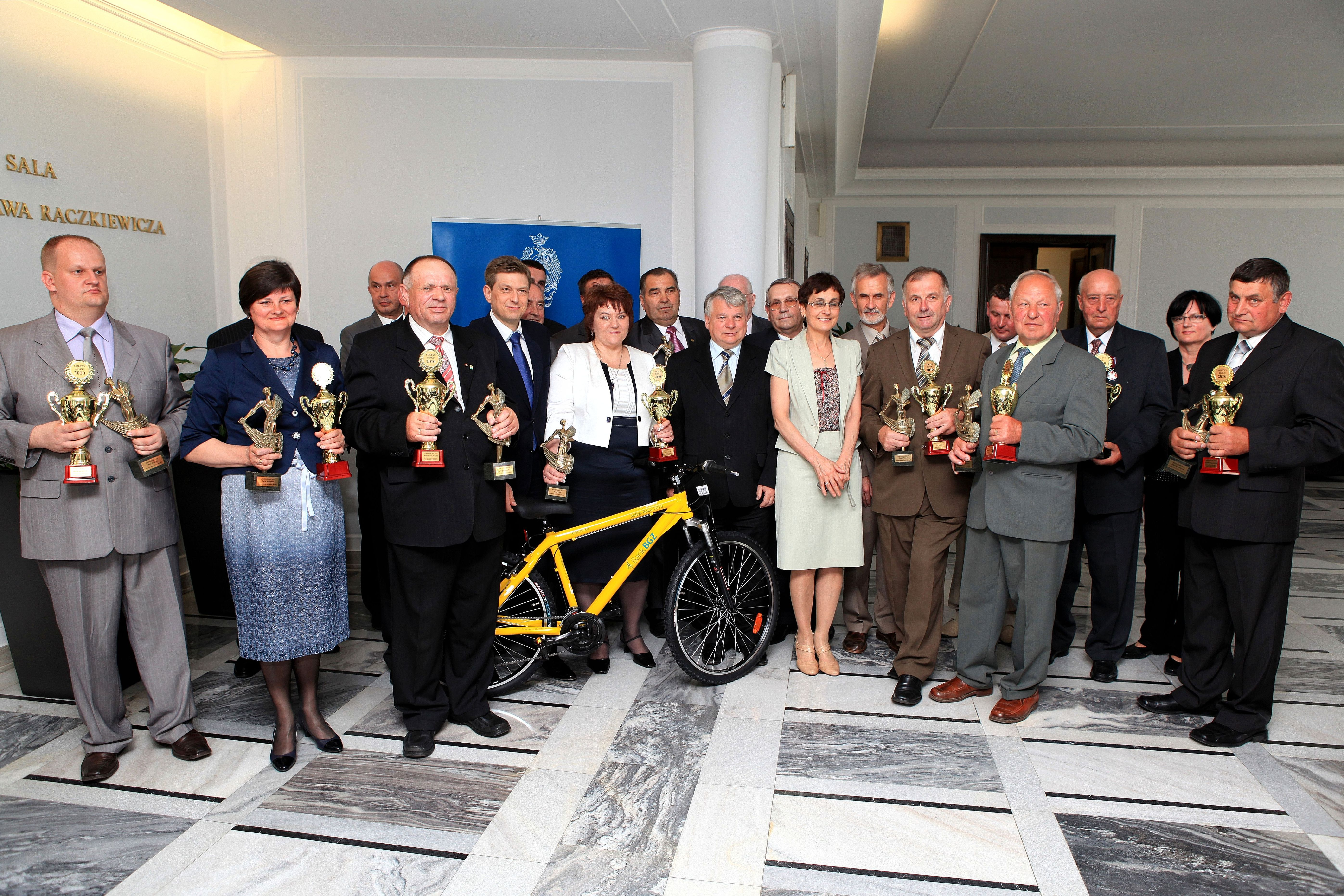 Laureates of the contest "Sołtys of the Year" in the Polish Senate